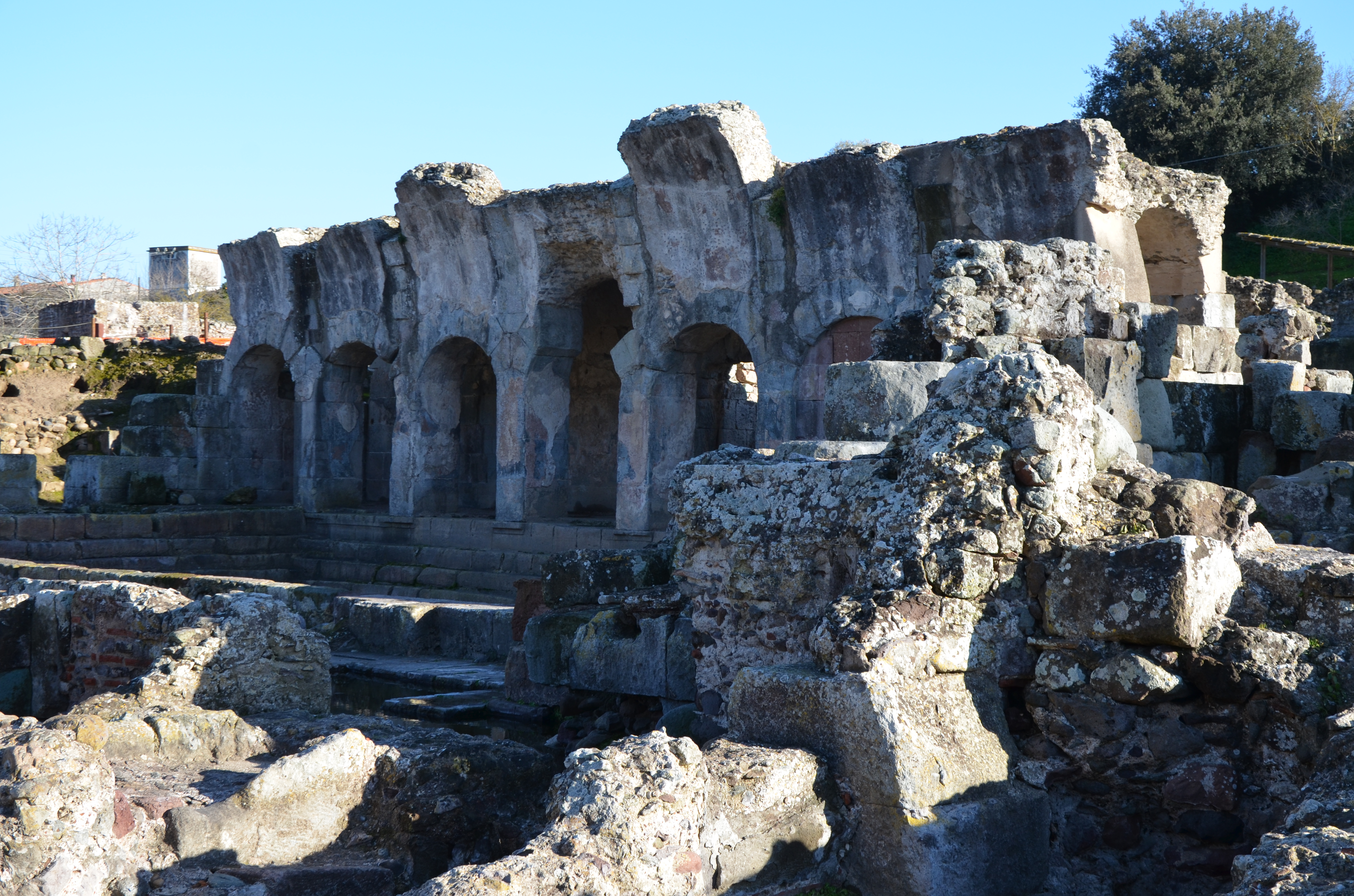 The Roman bath complex, built in the 1st century AD, Forum Traiani (Fordongianus), Sardinia